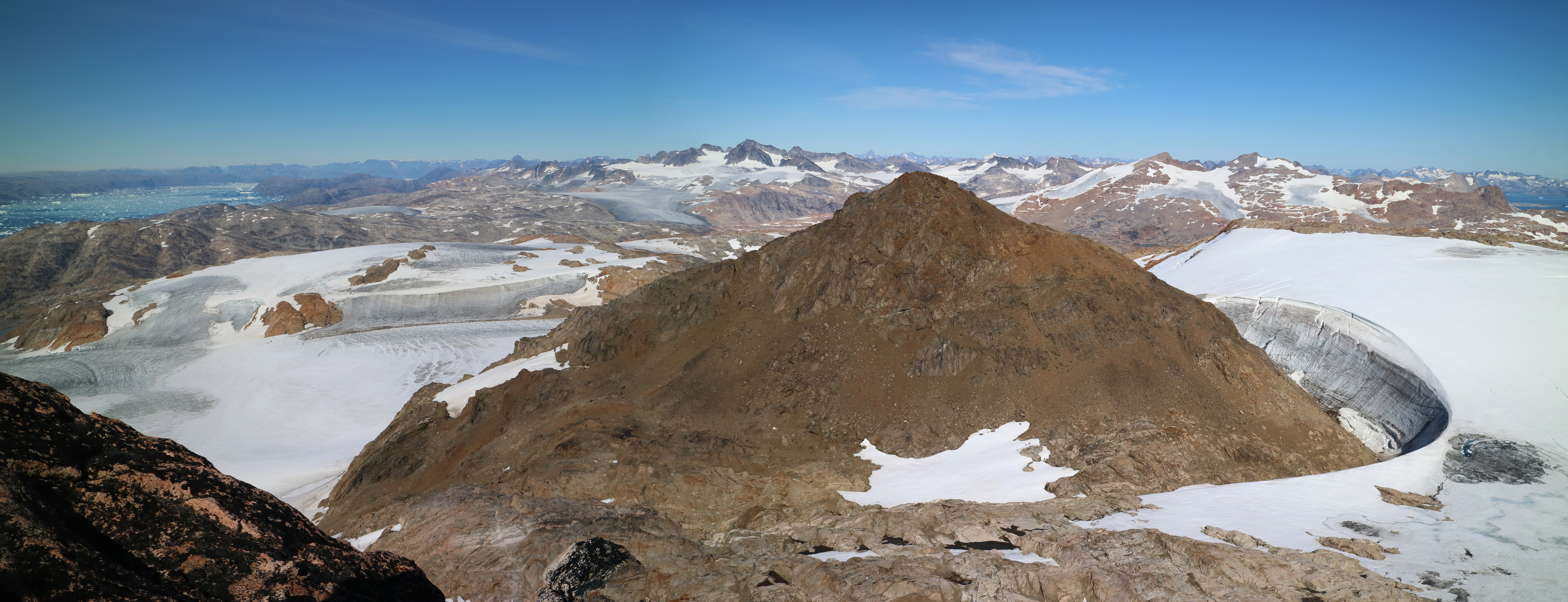 View from Mittivakkat nunatak towards north